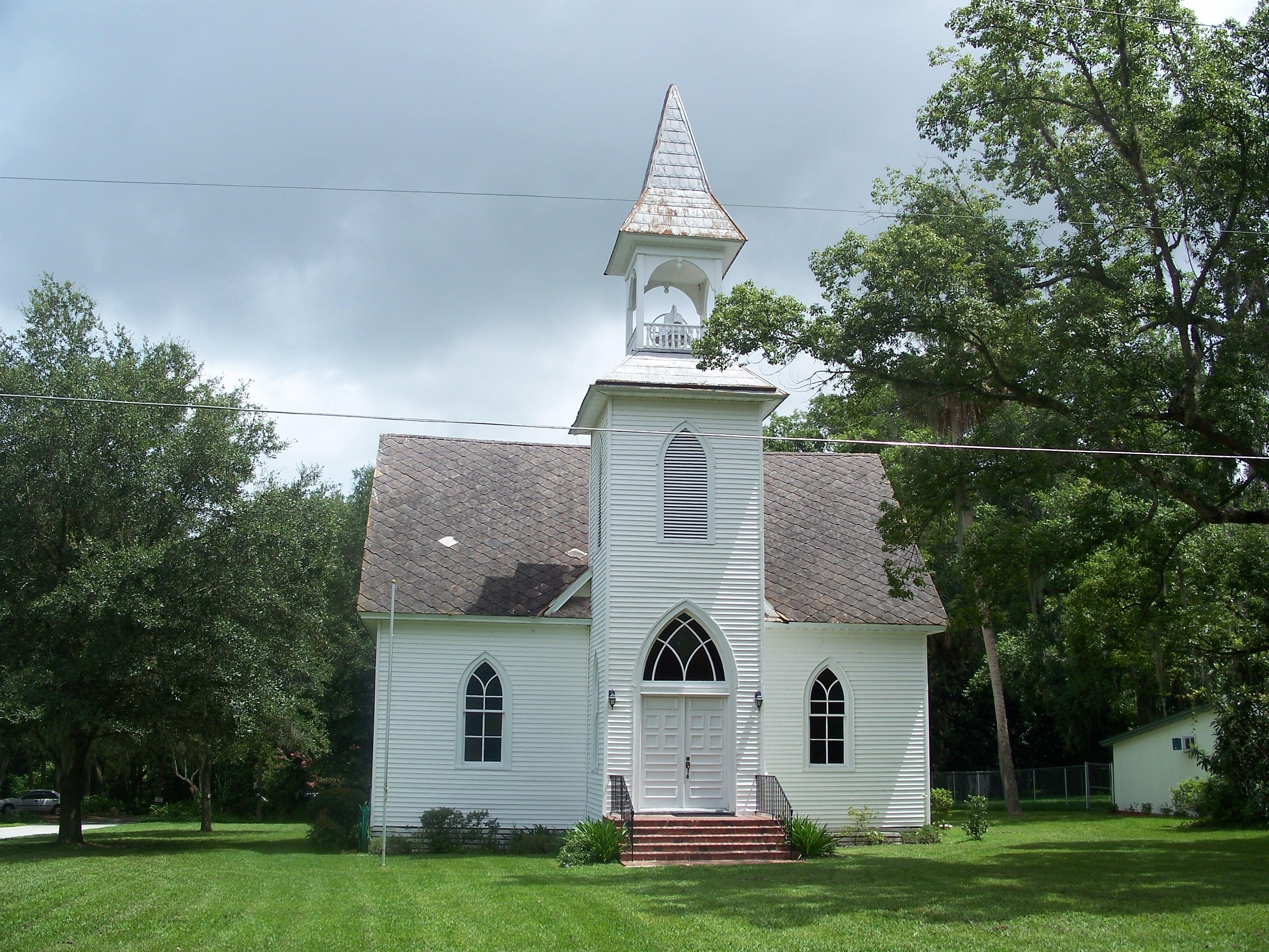 McIntosh Christian church in the McIntosh Historic District. The district is on the National Register of Historic Places